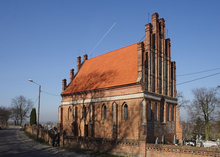 Radzyn Chelminski, chapel of St. George